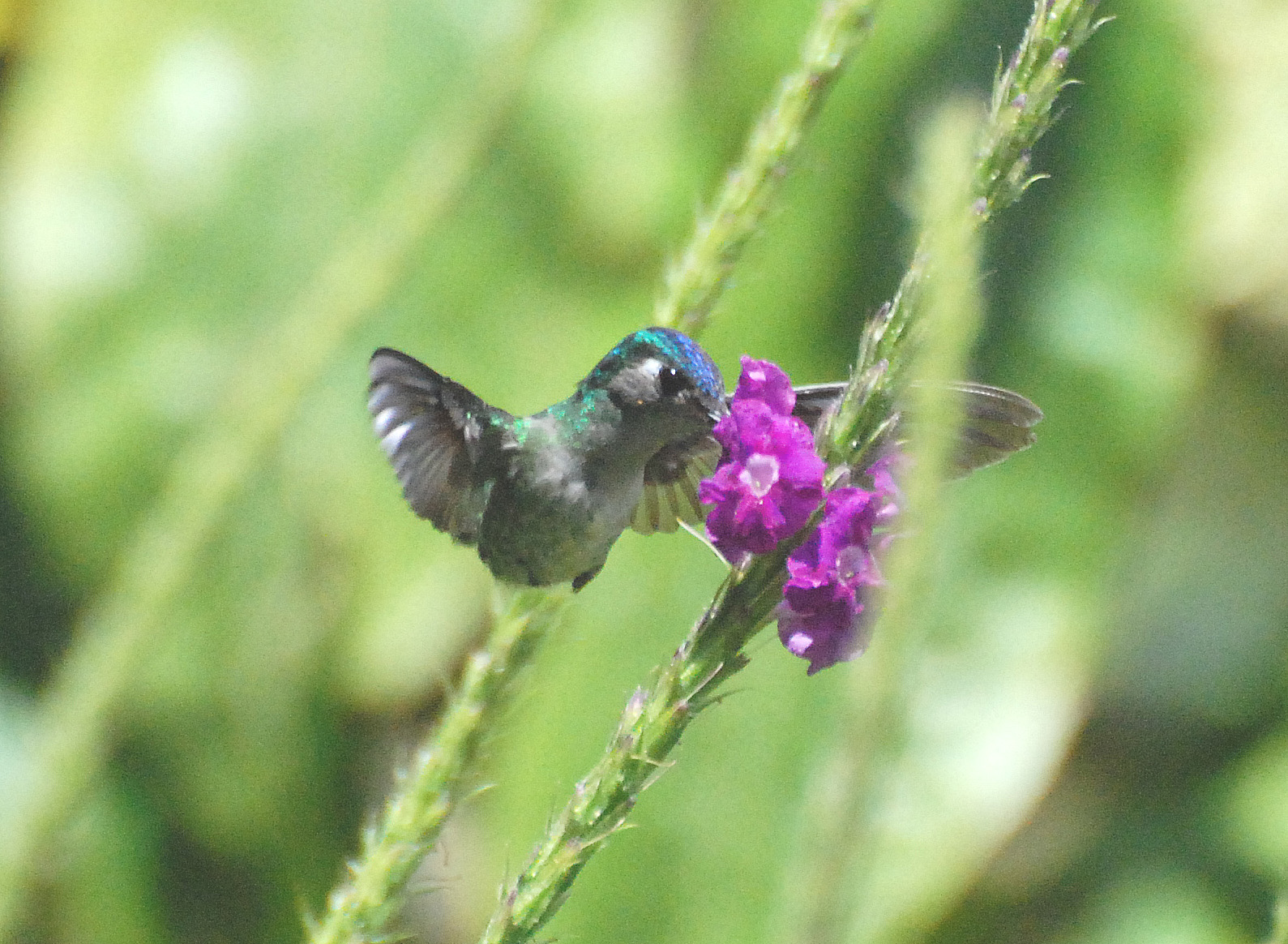 Violet-headed Hummingbird (Klais guimeti) at the Arenal Volcano Lodge, Costa Rica.